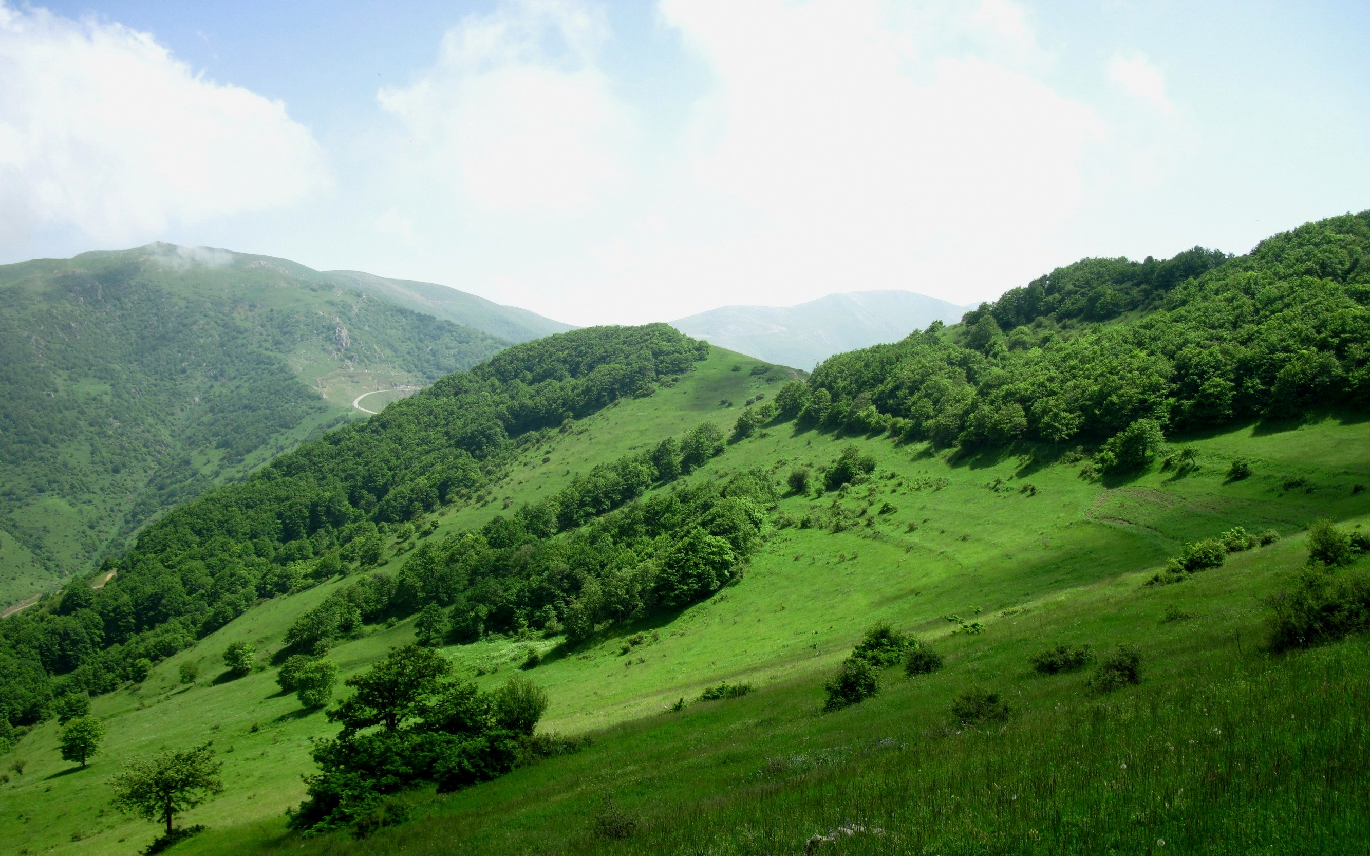 For Aqdash wiki page.